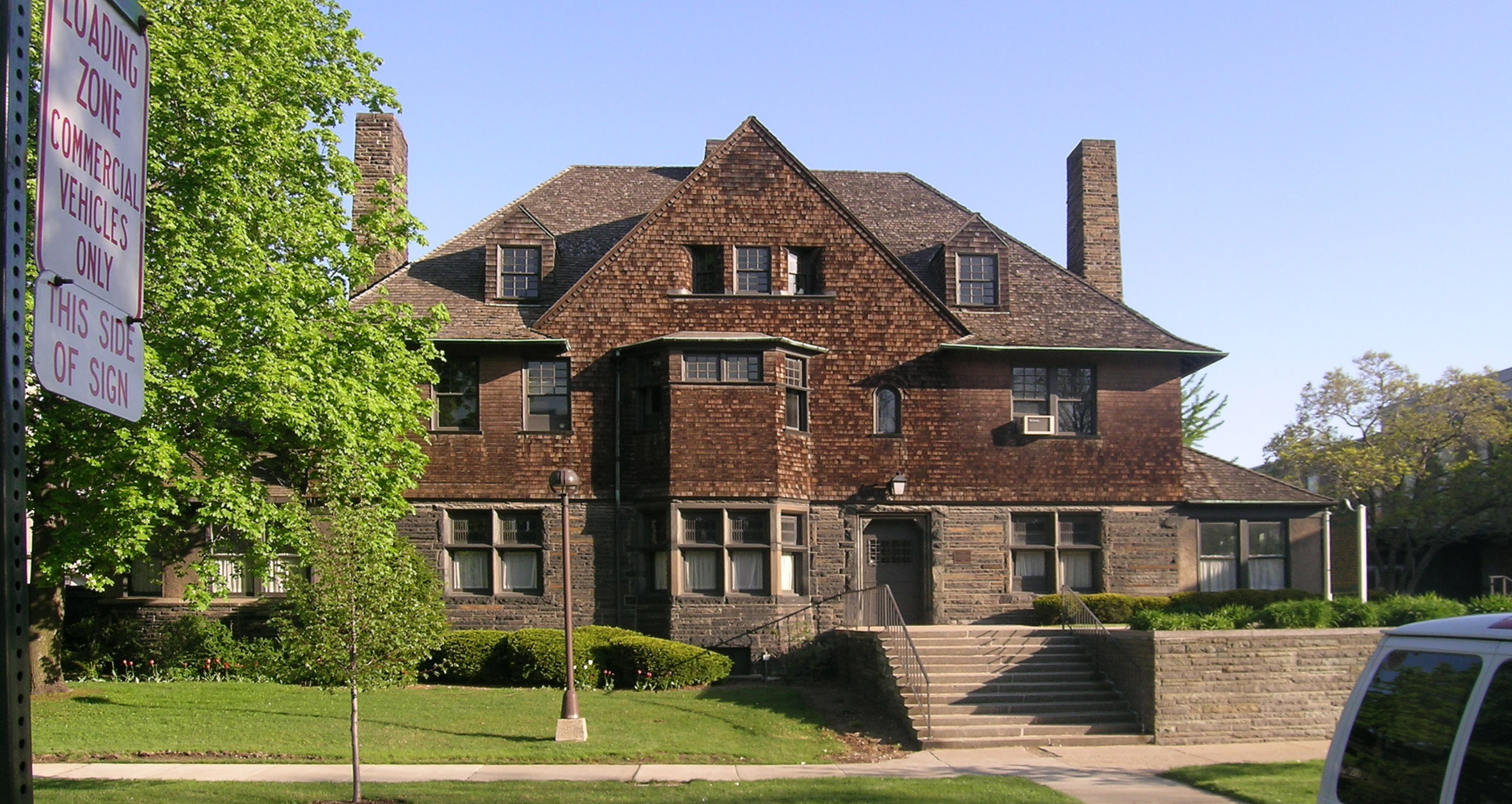 The Charles Lang Freer House — at 71 East Ferry Street in Midtown Detroit, Michigan. Built in 1887, in the Victorian Shingle Style of Queen Anne architecture. The house currently houses the Merrill Palmer Skillman Institute of Human Development & Family Life of Wayne State University. Contributing property to the Cultural Center Historic District, a Michigan State Historic Site, and listed on the National Register of Historic Places.